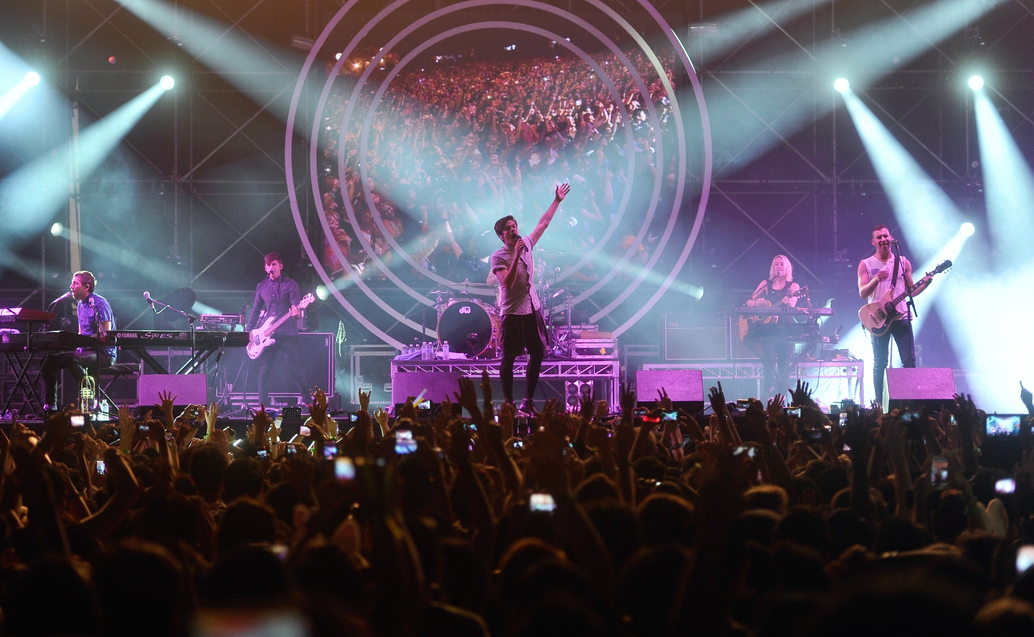 SEPANG,17/03/2013. FUN during Future Music Festival Asia 2013 at Sepang. Pix Firdaus Latif